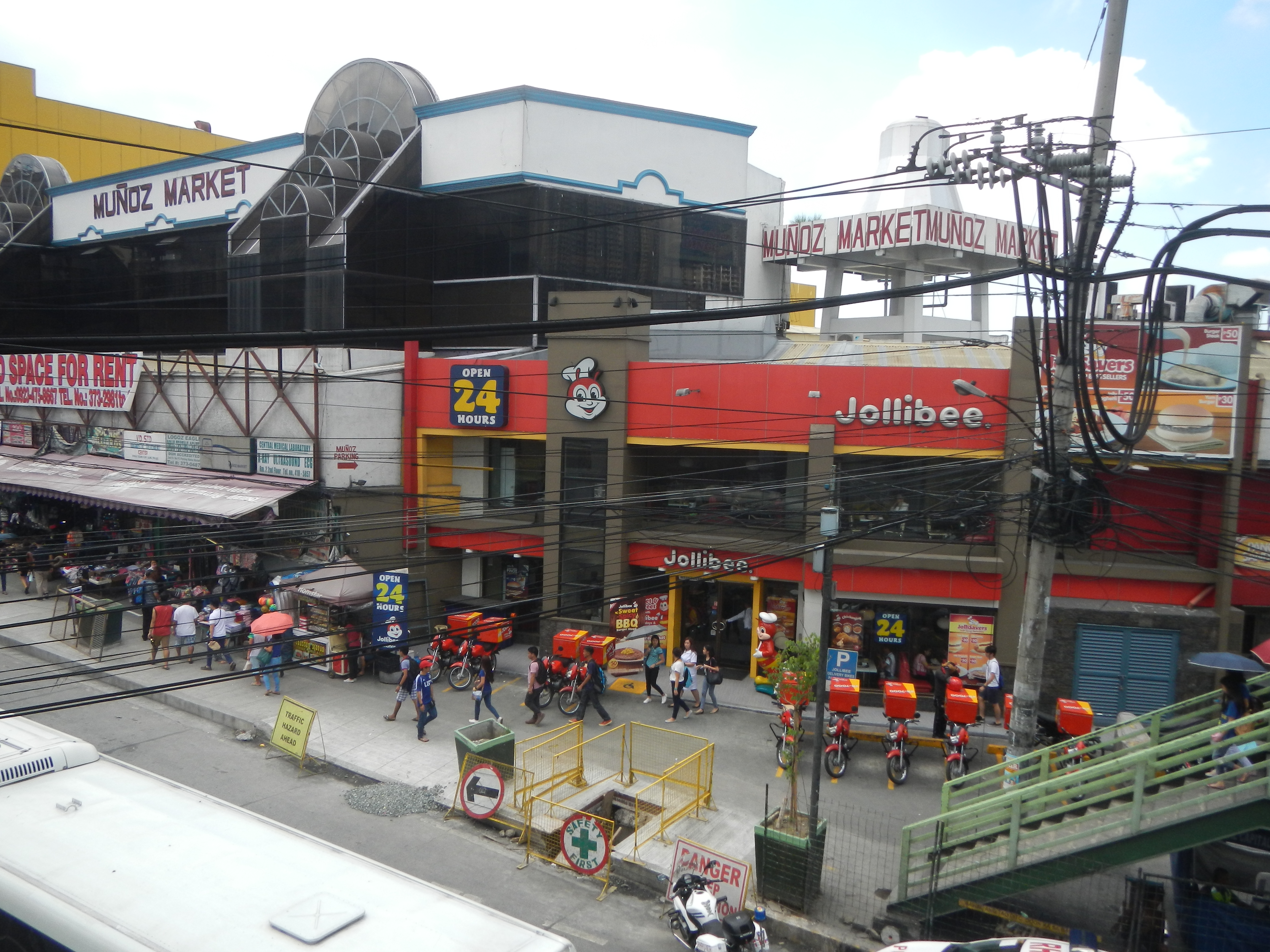 2016 Landscapes of Barangays Katipunan (Muñoz Footbridge) - Bahay Toro - Veterans Village, Congressional & Roosevelt Avenues, LRT Station, EDSA, Quezon City Roosevelt Avenue, Quezon City List of barangays of Metro Manila, Legislative districts of Quezon City District 1, Barangays of Quezon City Barangay Katipunan (Muñoz), beside San Antonio, in front of Veterans Village and Barangay Bahay Toro, Project 8, District 1, Quezon City; (surrounded by the List of rivers and estuaries in Metro Manila San Juan River (Metro Manila) tributary of Pasig River, Esteros de Bahay Toro-Bago Bantay-Culiát, Quezon City; from the Roosevelt LRT Station EDSA (road) Epifanio de los Santos Avenue (EDSA, Balintawak-Roosevelt Avenue, Quezon City section); Note: (Judge Florentino Floro, the owner, to repeat, Donor Florentino Floro of all these photos hereby donate gratuitously, freely and unconditionally all these photos to and for Wikimedia Commons, exclusively, for public use of the public domain, and again without any condition whatsoever).